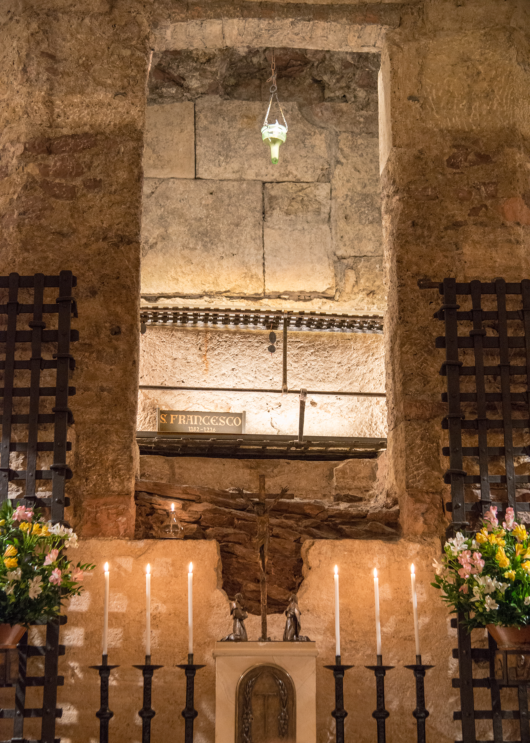 The crypt in the Basilica at Assisi, Italy